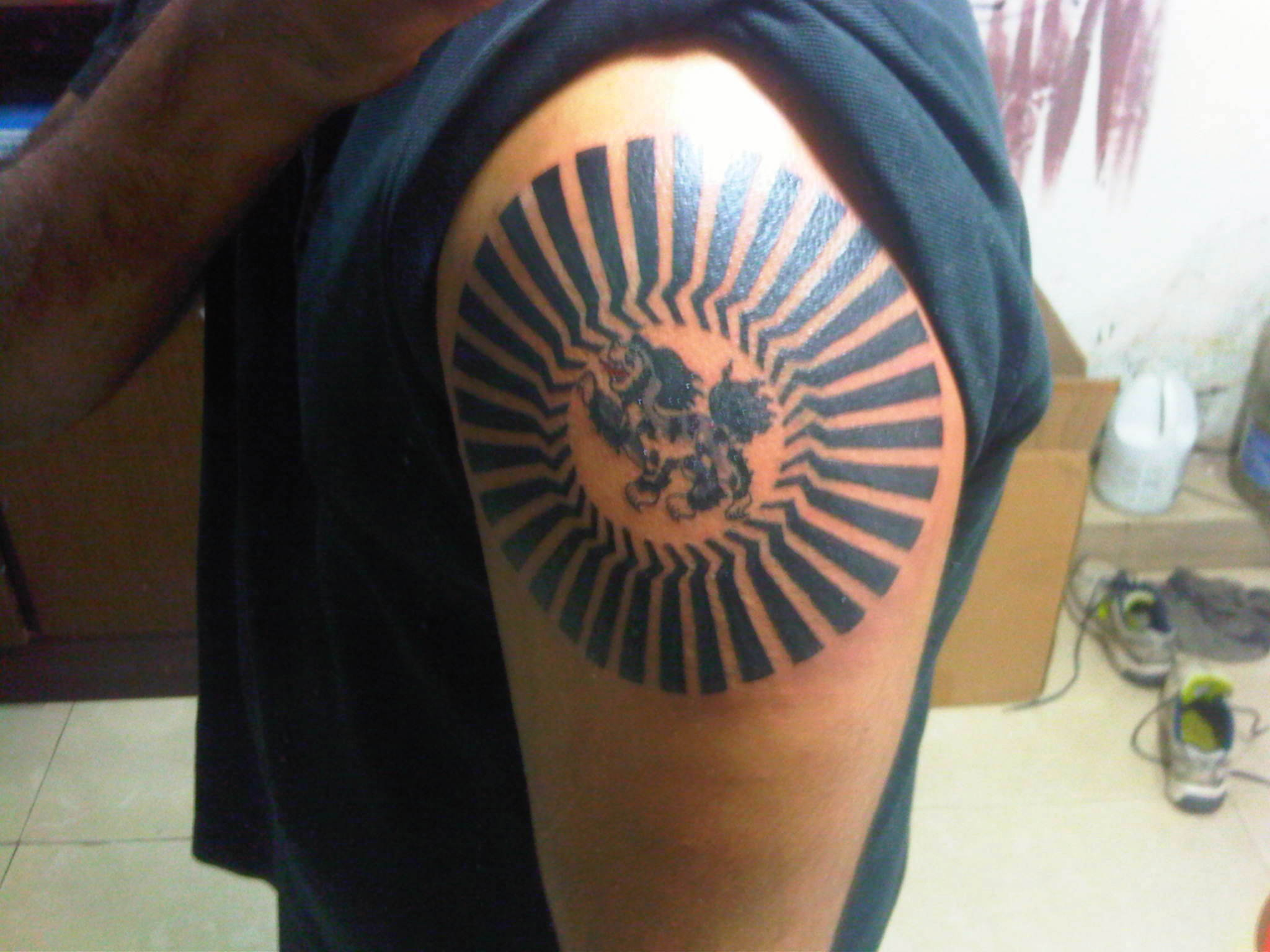 Tattoo of a snow lion in a Rising Sun